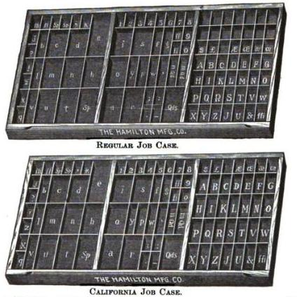 Illustration of two "job cases" (type cases), a "regular" job case and a "California" job case.